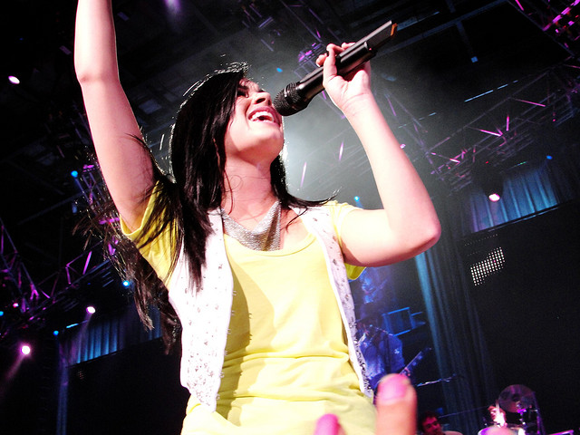 Demi Lovato in the Summer Tour 2009 performing "So Far So Great" I love the lighting in this.: my hand at the bottom btw. 8/18 in Michigan. Camera: Sony DSC-H20 License on Flickr (2011-07-29): CC-BY-2.0